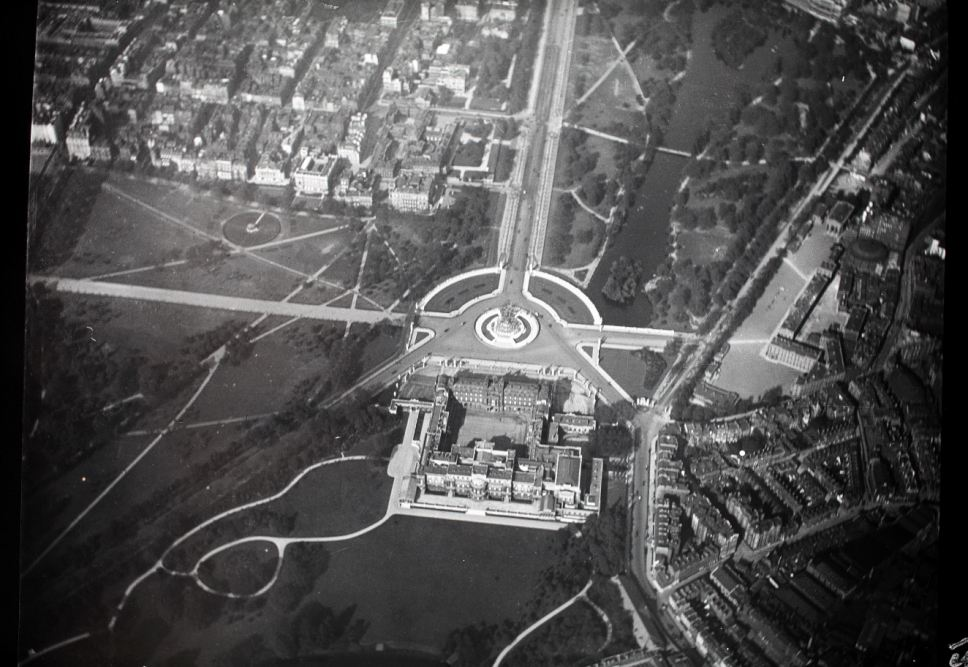 A picture of Buckingham Palace taken by scientist Sir Norman Lockyer in 1909 from a Helium balloon